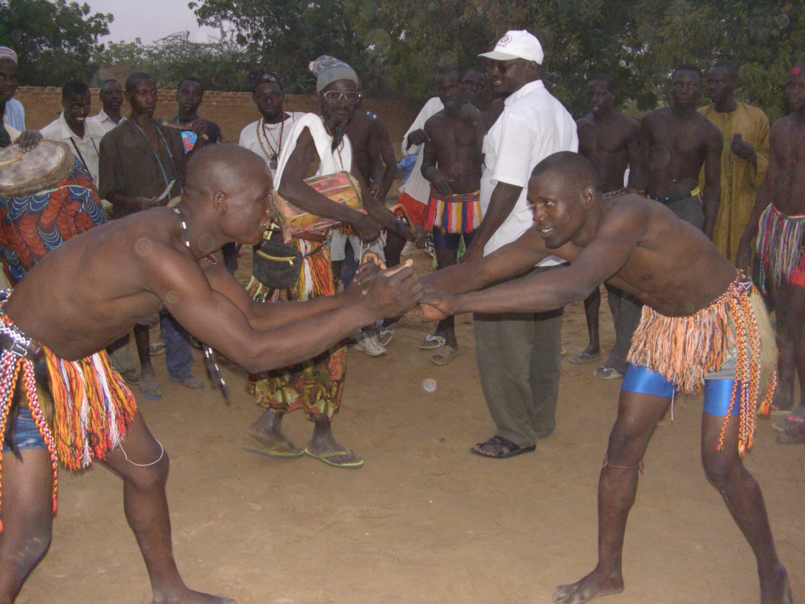 niger